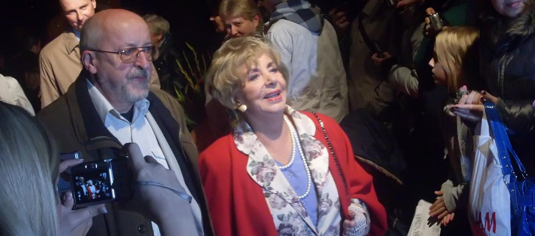 Polish actress Zofia Czerwińska at Polish Film Festival in Gdynia.